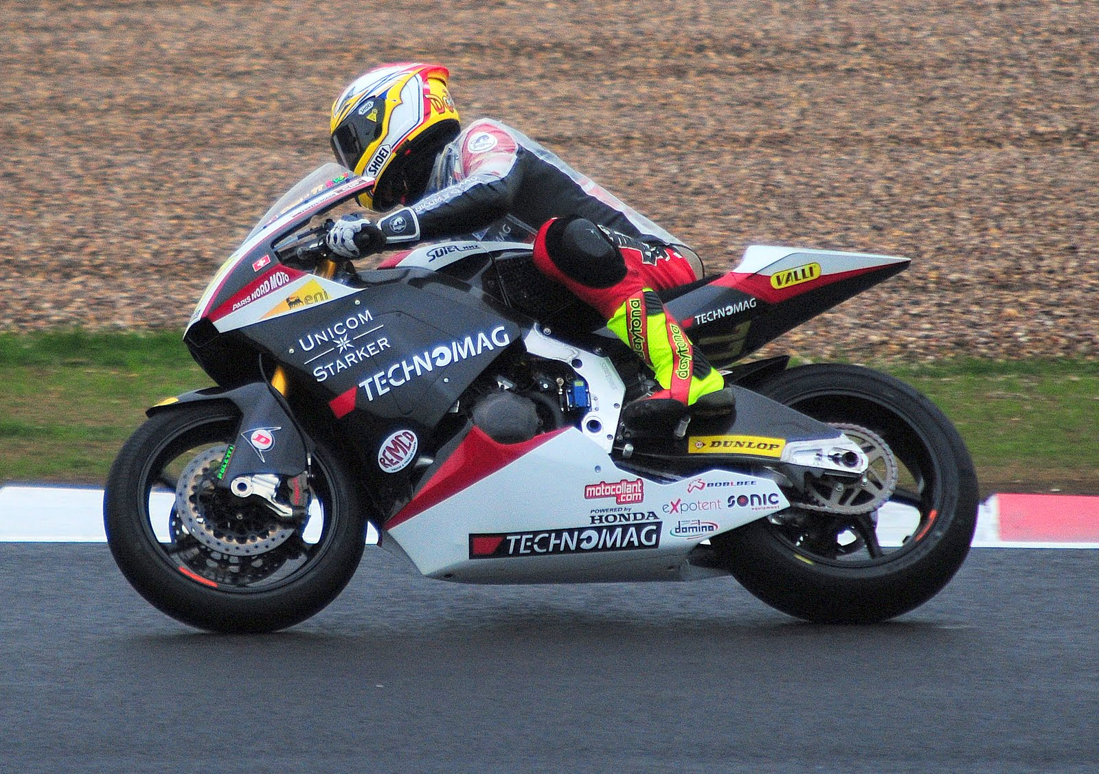 Dominique Aegerter 2010 Silverstone